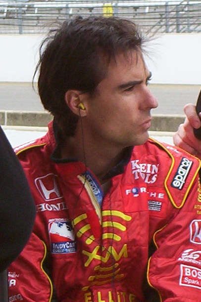 Bryan Herta at the Indianapolis Motor Speedway for the third day of qualifications for the 2004 Indianapolis 500.